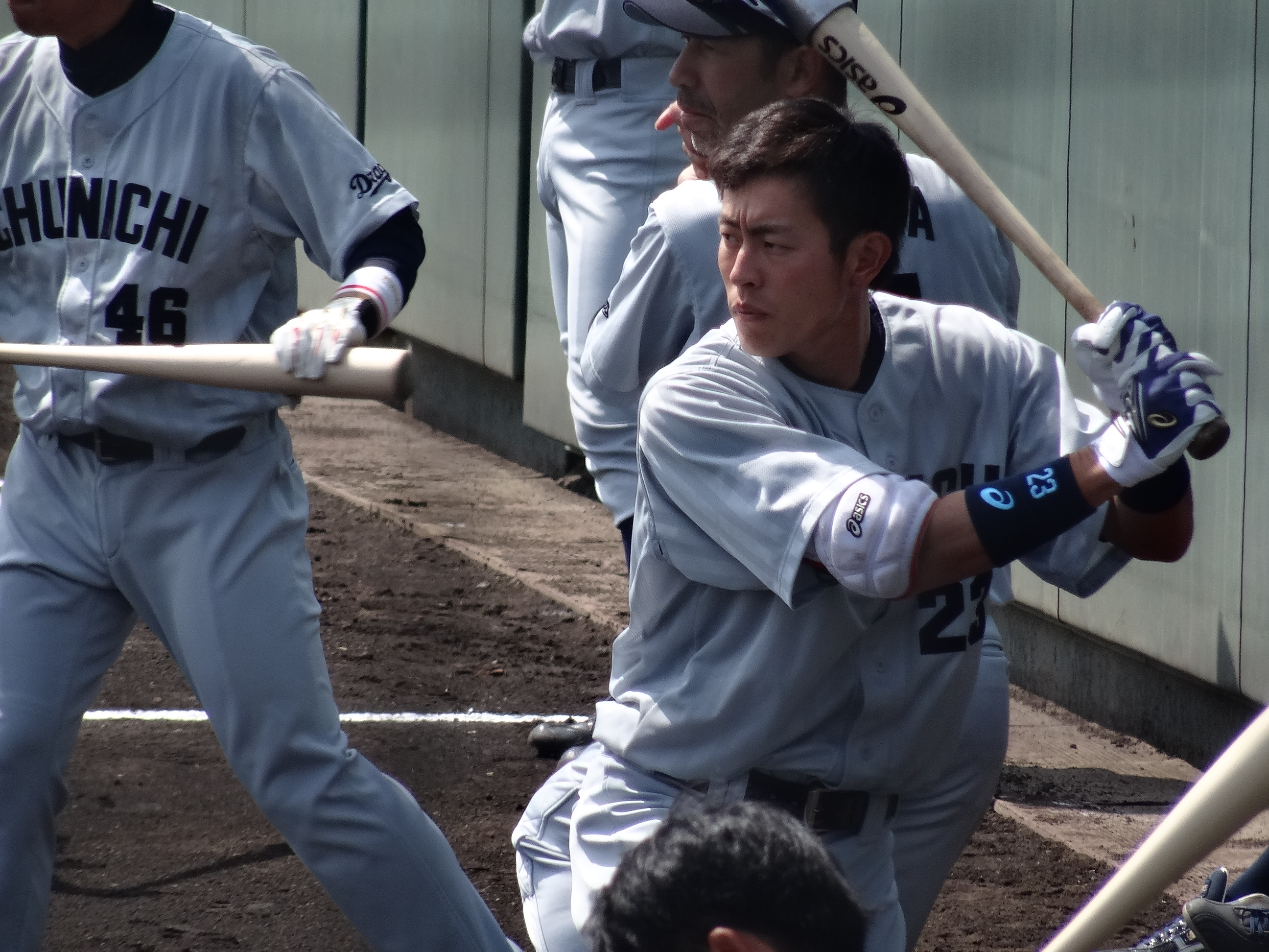 Issei Endo, infielder of the Chunichi Dragons, at Hanshin Naruohama Baseball Ground.